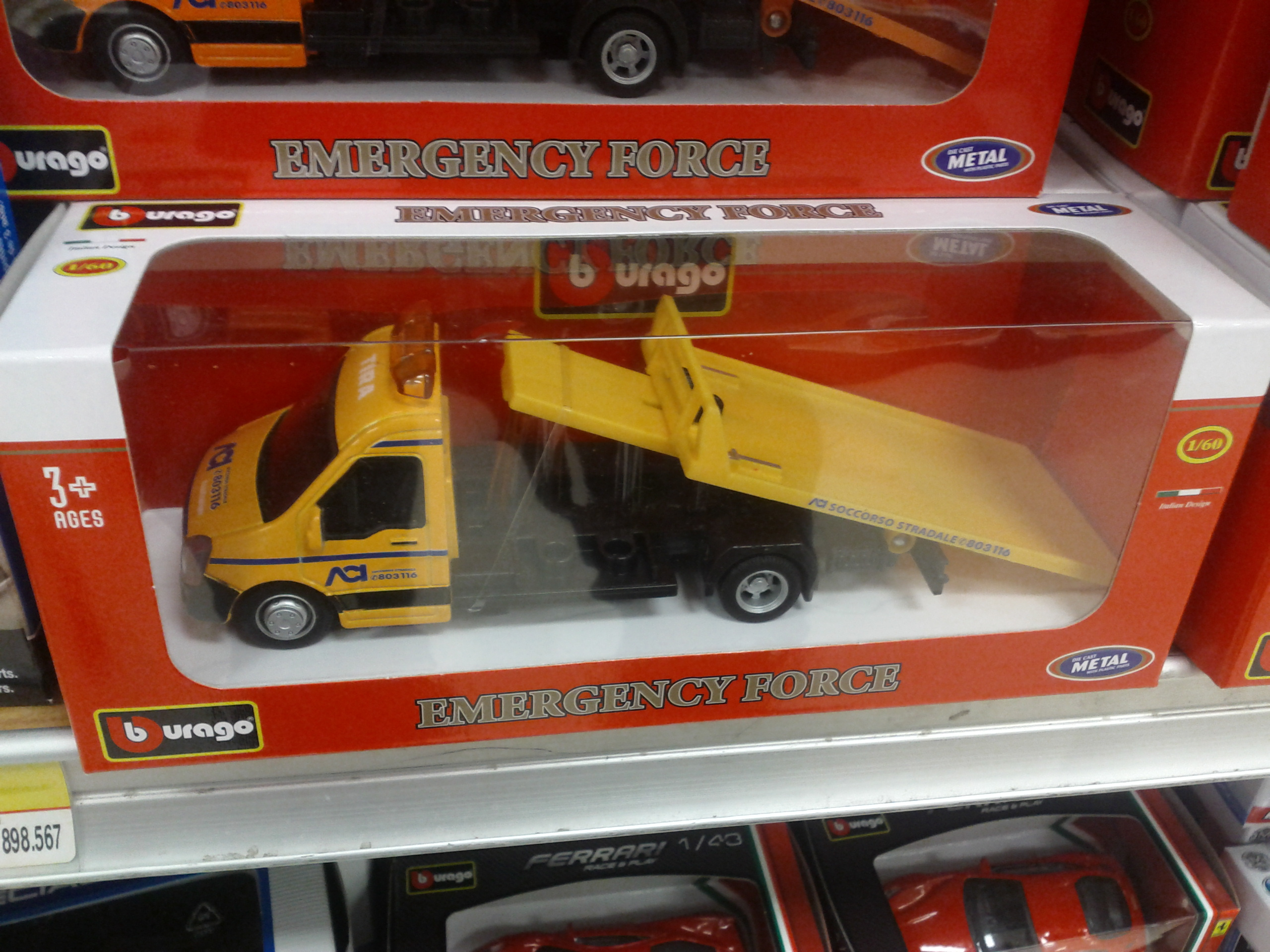 Bburago (a May Cheong Group brand) diecast emergency force truck. Made in China in 2014